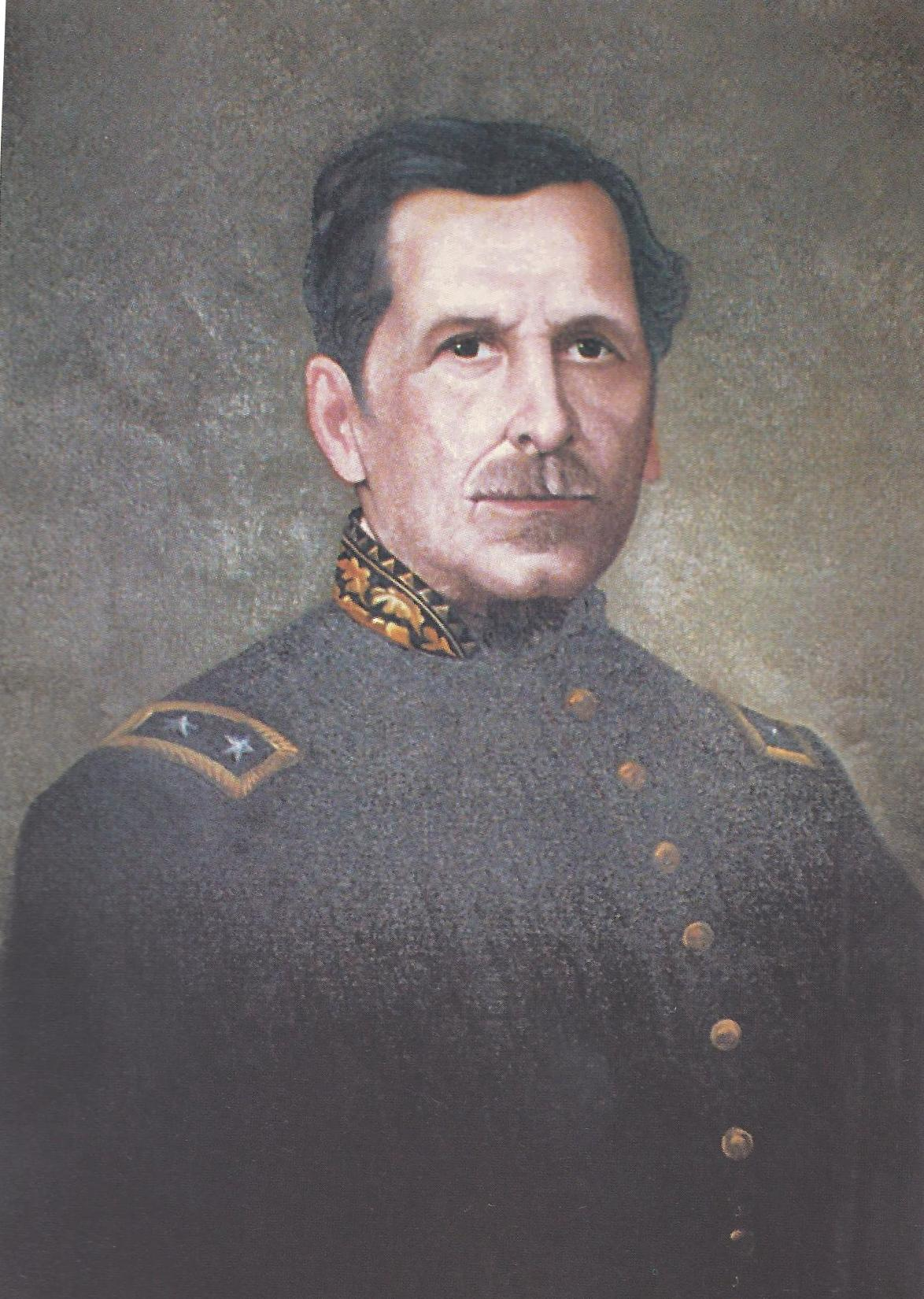 The Mariscal Santiago Gonzalez, presidente of El Salvador (1871-1876)